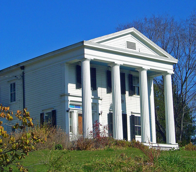 Daniel Waring House. Photographed by Daniel Case 2006-11-06